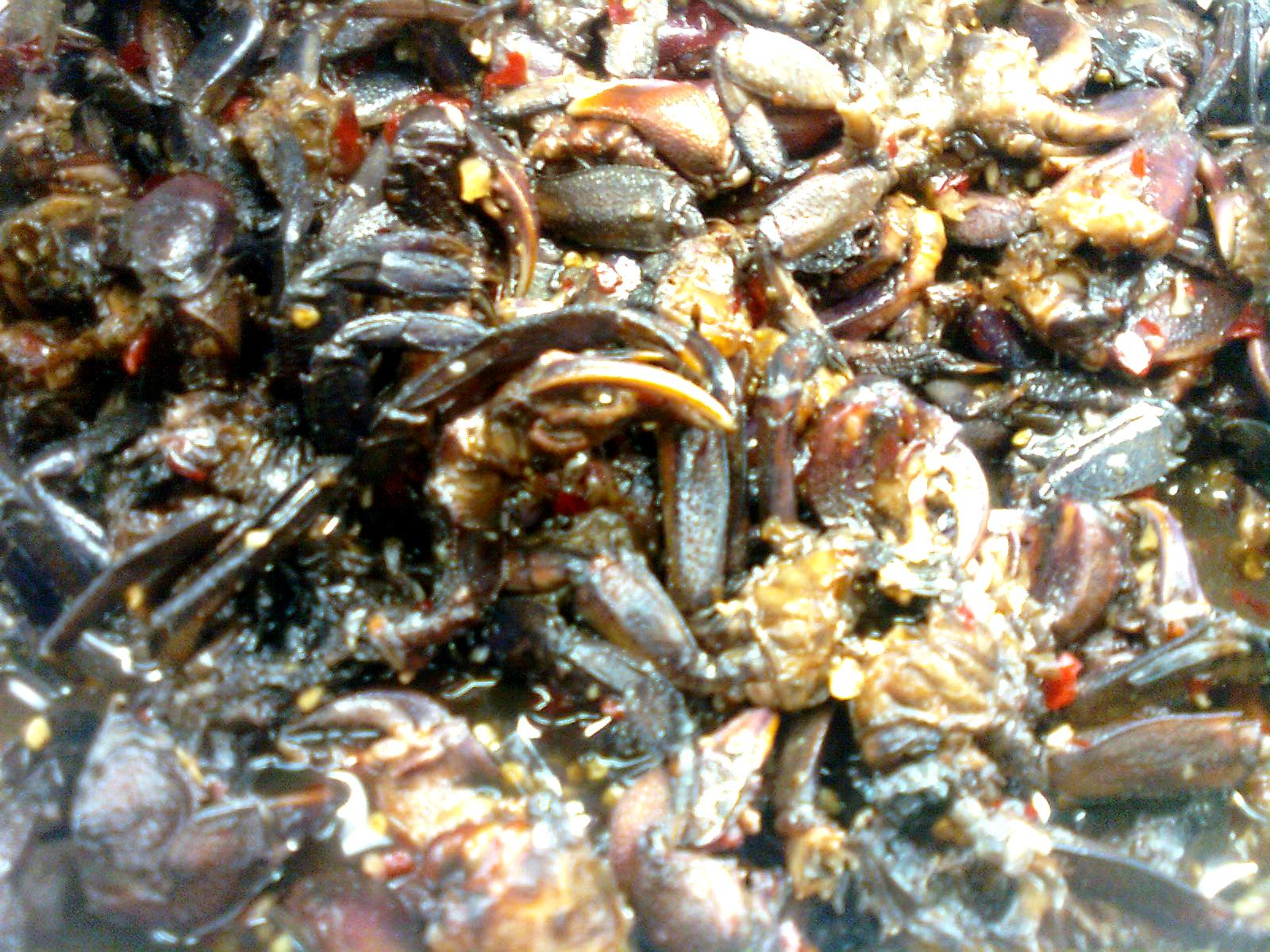 Mangrove crab "mắm" - a traditional Vietnamese dises